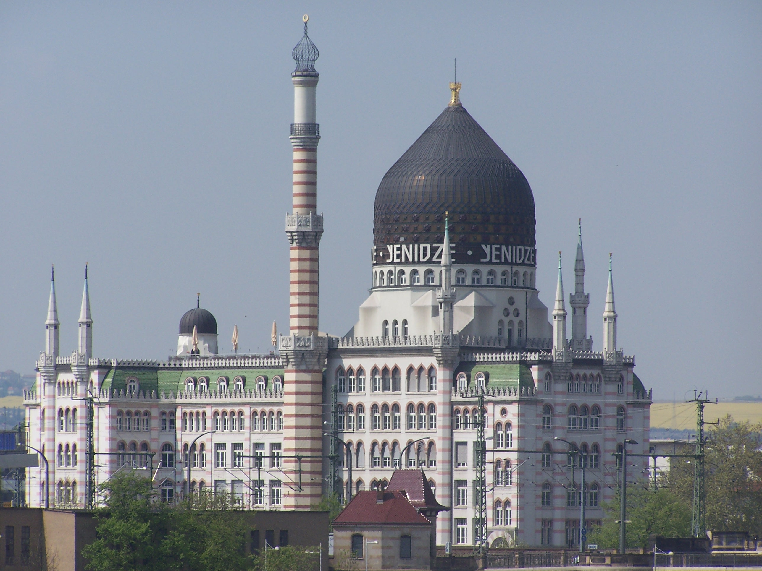 Yenidze in Dresden / former cigarette factory building "Yenidze" in Dresden, Germany